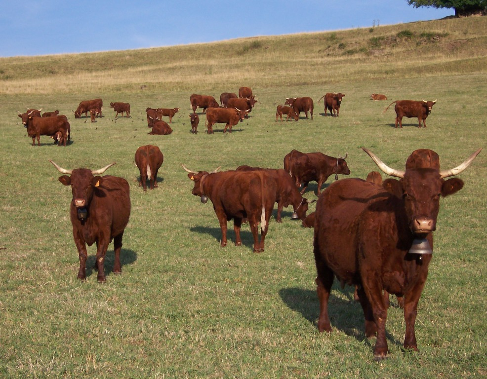 Salers breed cattle (herd in meadow), Cantal (France)